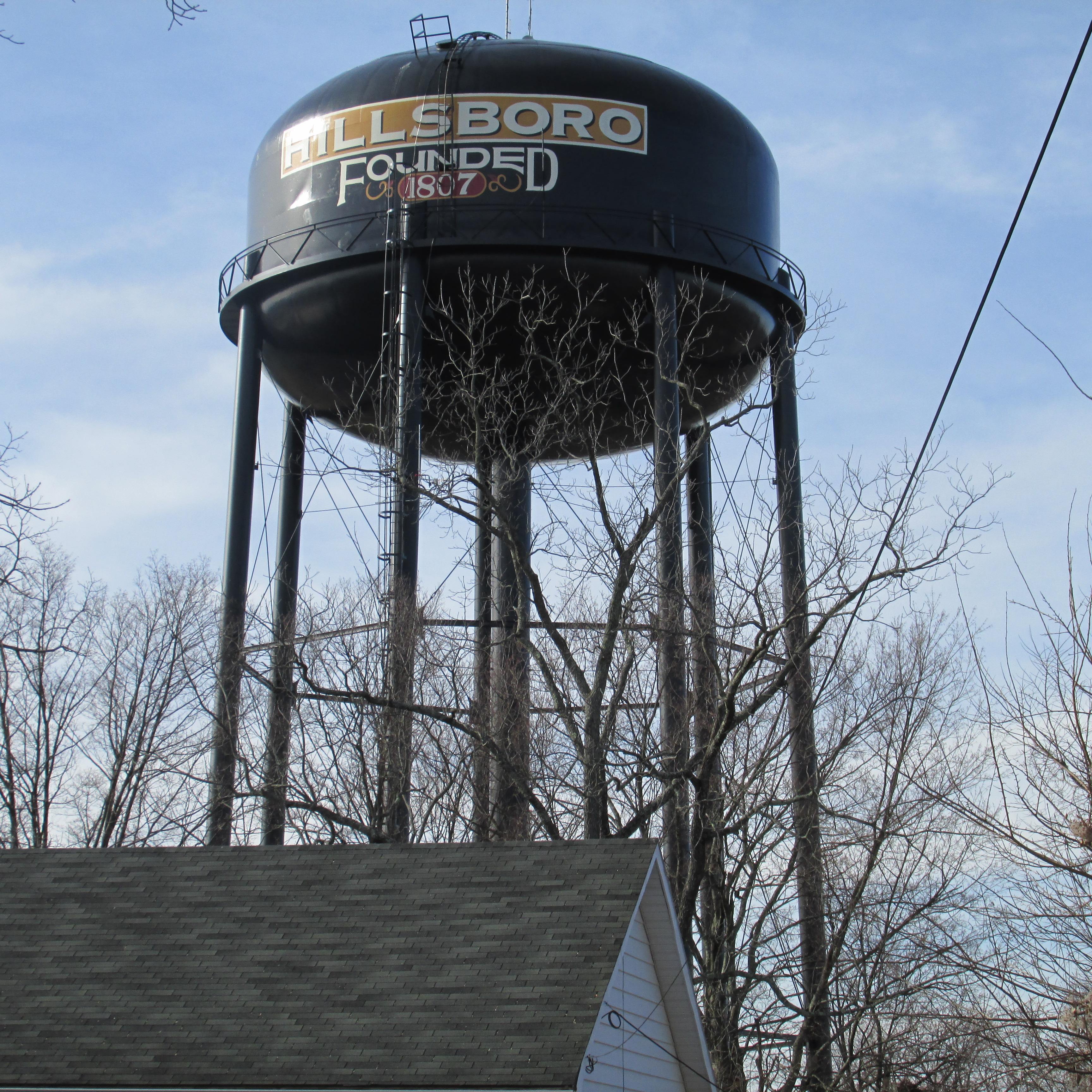 The Oak Street water tower in Hillsboro, Ohio. Constructed in 1962.